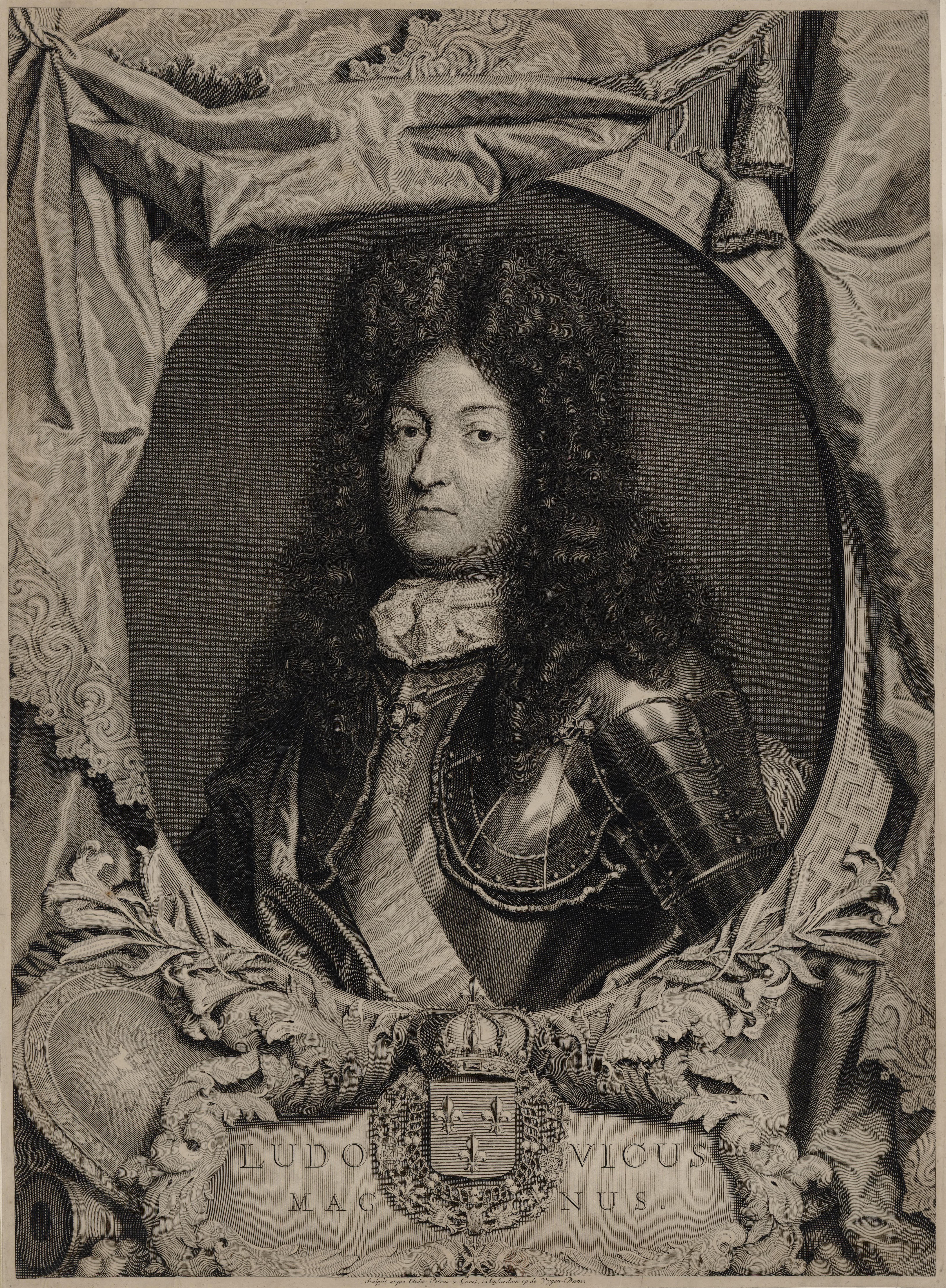 Portrait de Louis XIV of France